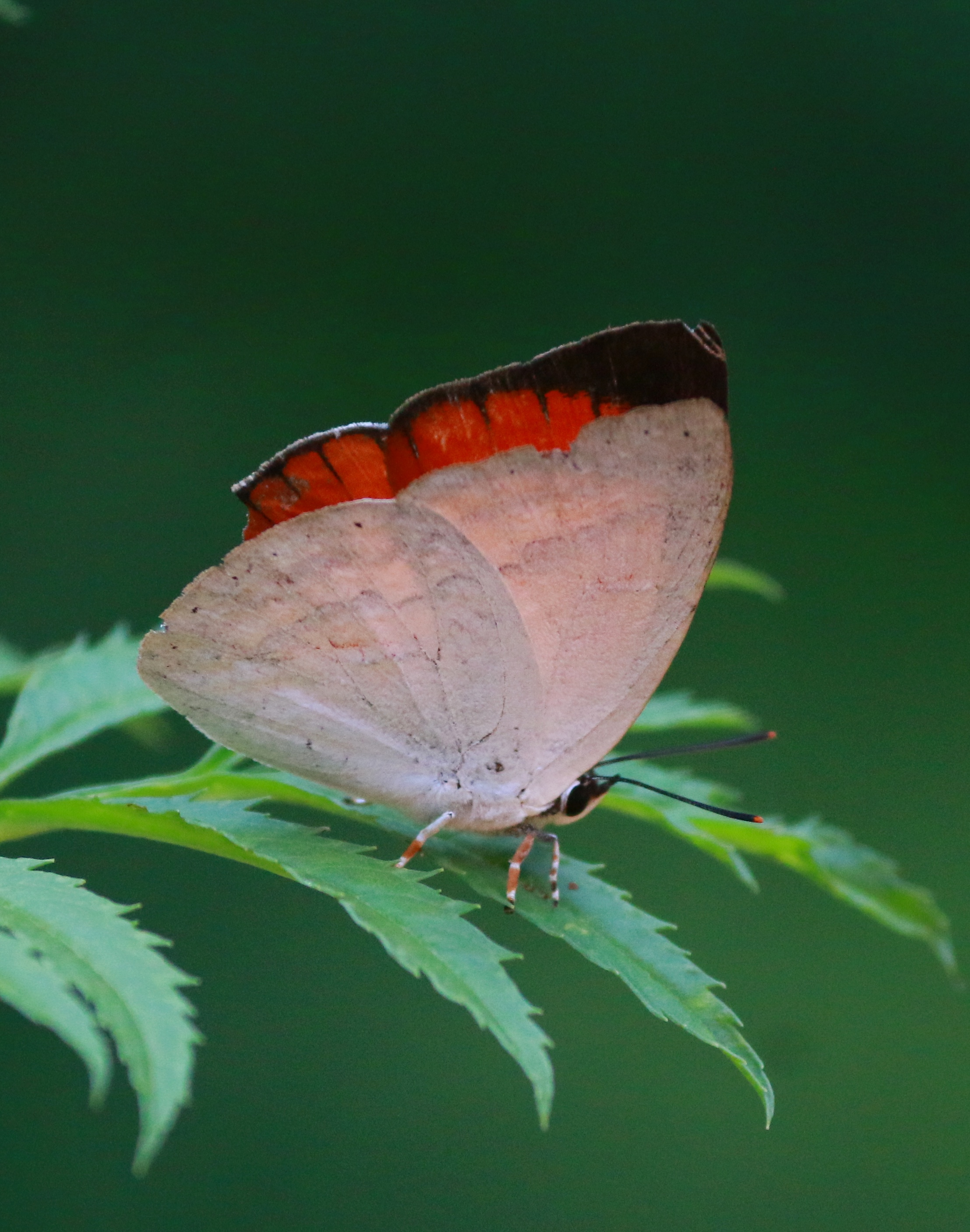 Curetis thetis, indian sunbeam